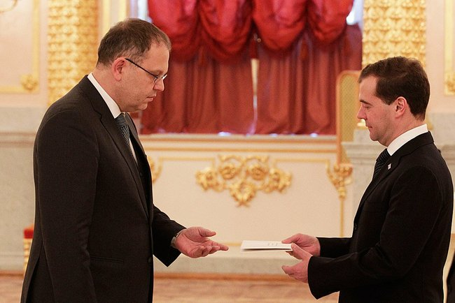 December 7, 2011: Dmitry Medvedev receives the letter of credence from Ambassador of the Grand Duchy of Luxembourg Pierre Ferring.